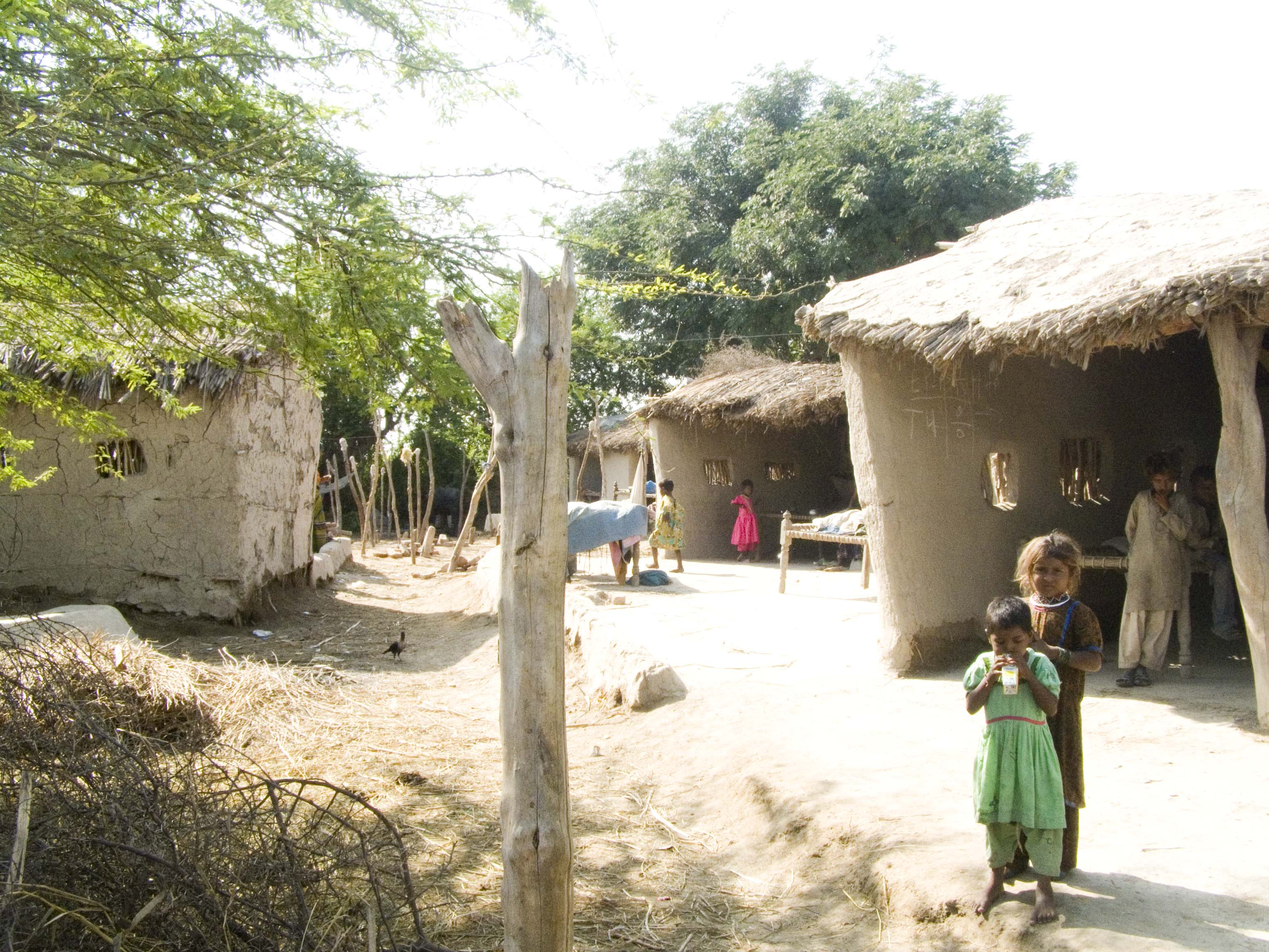 A house in mohallah Rano Kolhi